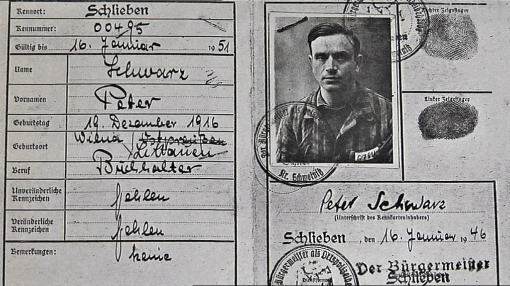 Identity documents of Peter Schwarz of Schlieben, Germany (then part of East Germany), a former inmate in Buchenwald born Feivush Schwarz in Lithuania.